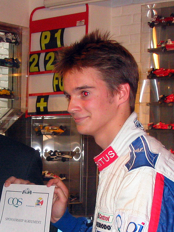 Ross Jamison in Hong Kong at a sponsor function.